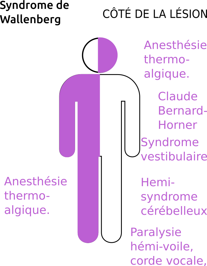 Modified stickerman representing Wallenberg syndrome (a.k.a. lateral medullary syndrome).